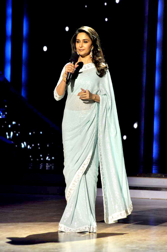 Madhuri Dixit on sets of Jhalak Dikhhla Jaa 5.